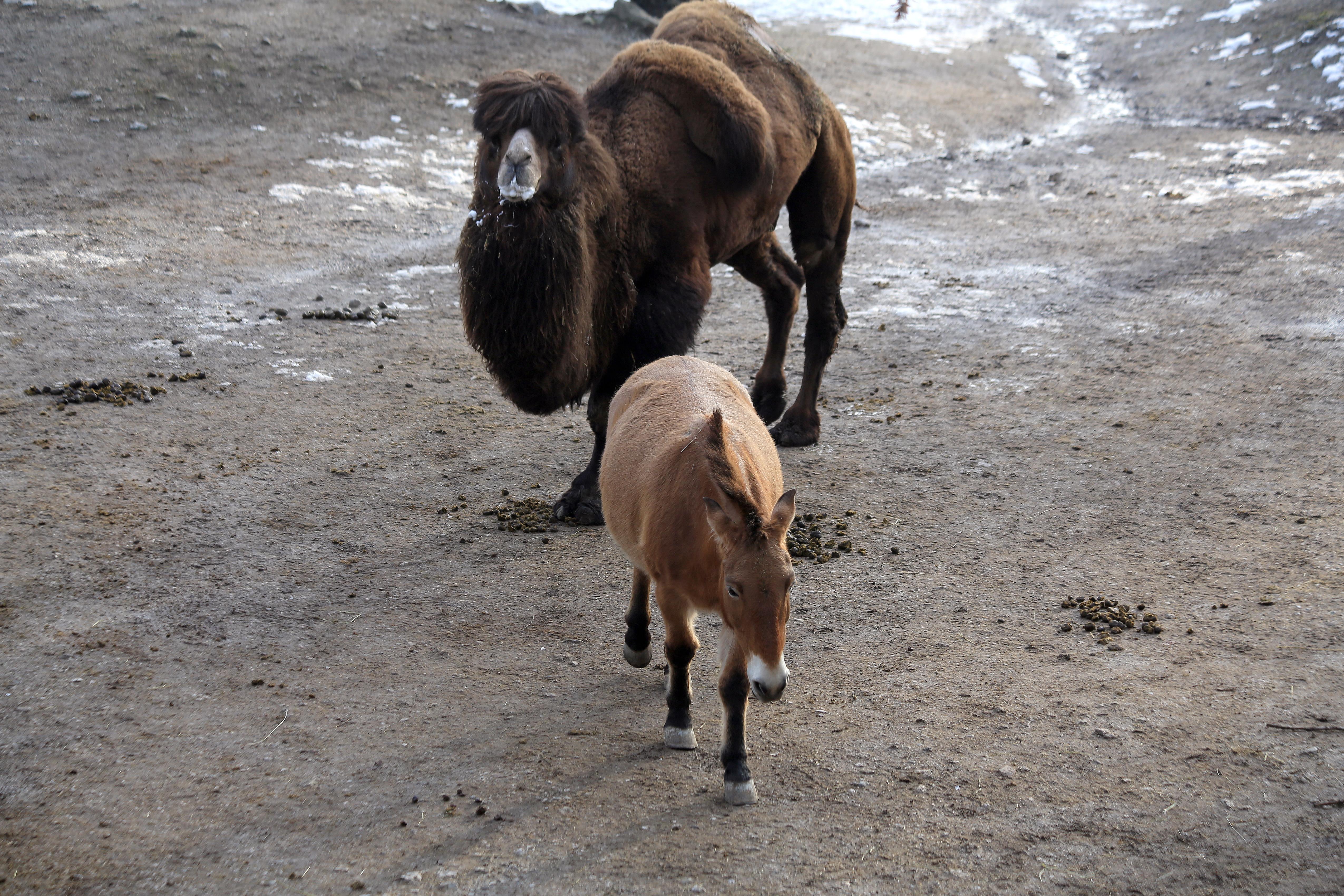 Przewalski's horse (Equus ferus przewalskii) and Bactrian camel (Camelus ferus) in Salzburg Zoo (Salzburg, Austria).